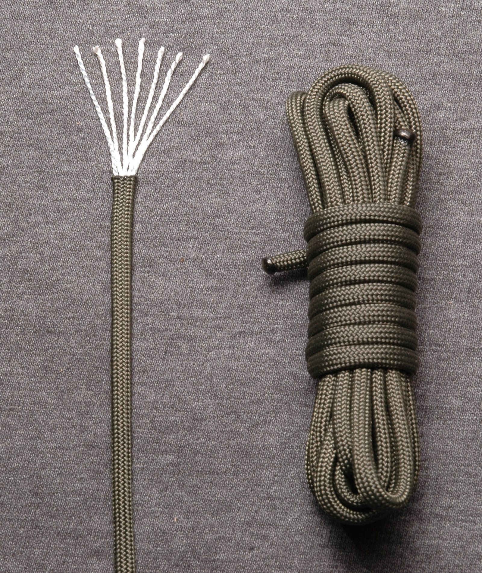 Olive drab Parachute cord, purchased at a surplus store in the US. It was labeled: "Rothco, "G.I. PLUS", Type III Commercial, Nylon Paracord, Made by a Certified US Gov't Contractor, 550 lb. Test, 7 Strand Core, 100% Nylon, Made in the USA". The sheath (mantle) is braided from 32 strands and the core (kern) made up of seven two-ply yarns. Thus it does not appear to conform strictly to MIL-C-5040H Type III, which seems to specify three-ply yarns for the core. It is possible, however, that the two plies contain a similar amount of nylon as the equivalent three-ply yarns and behave similarly. The pictured coil contains 10 ft (3 m) of parachute cord.